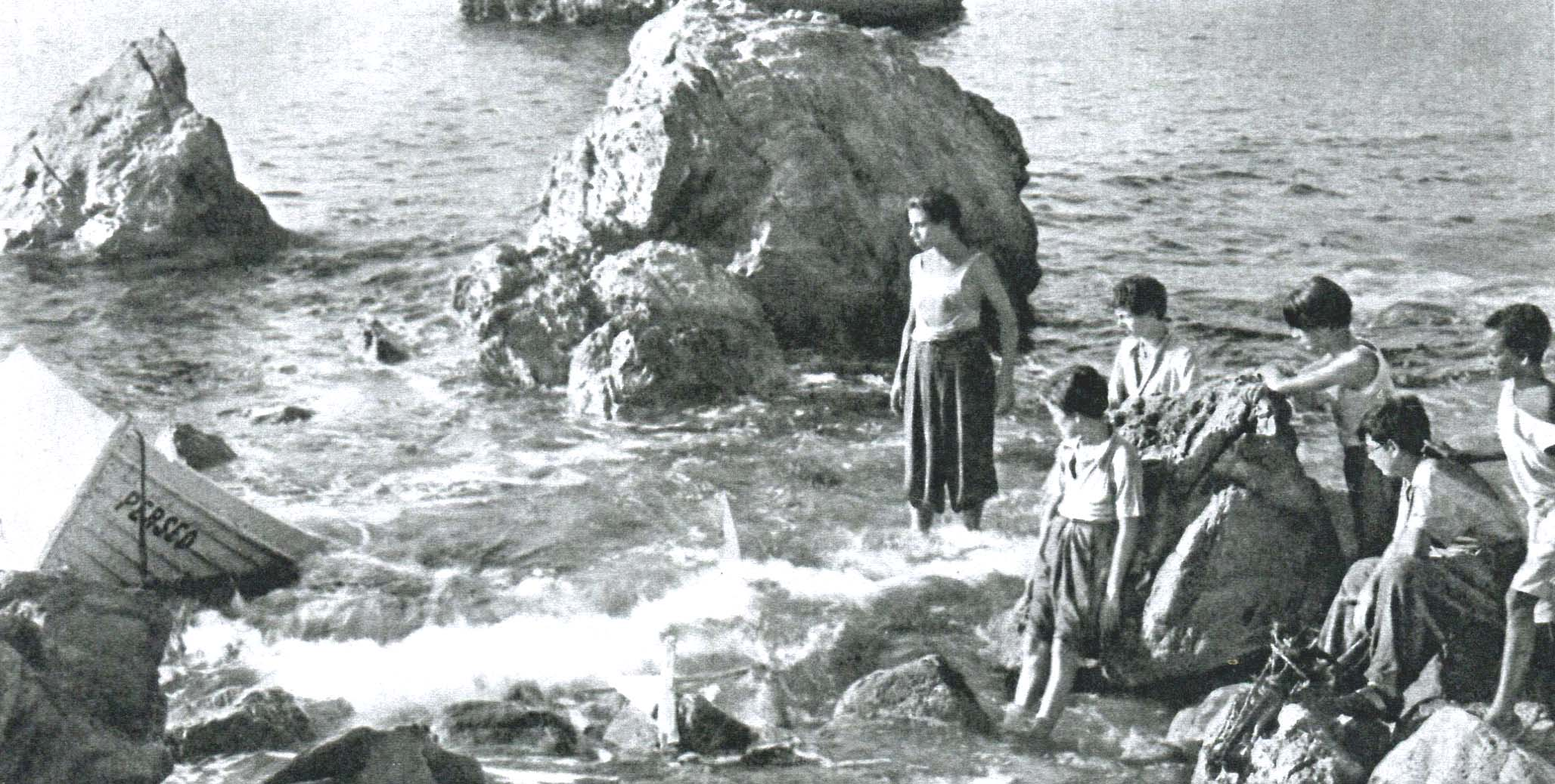 piccoli naufraghi (Calzavara 1939) - foto scena esterni - isola del Giglio